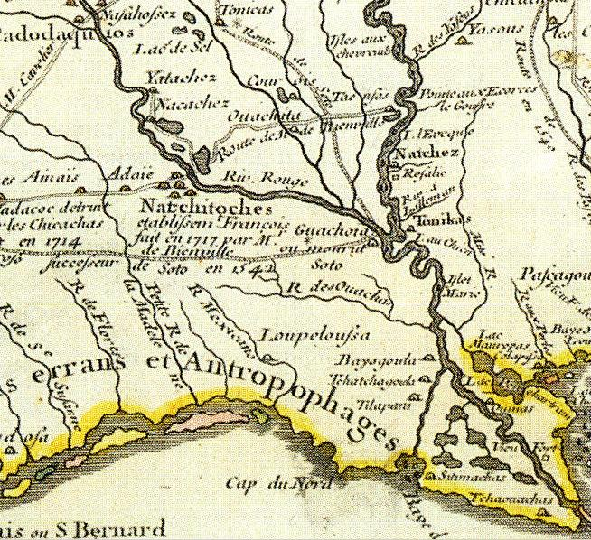 Cropped map from a larger 1718 map by Guillaume Delisle.